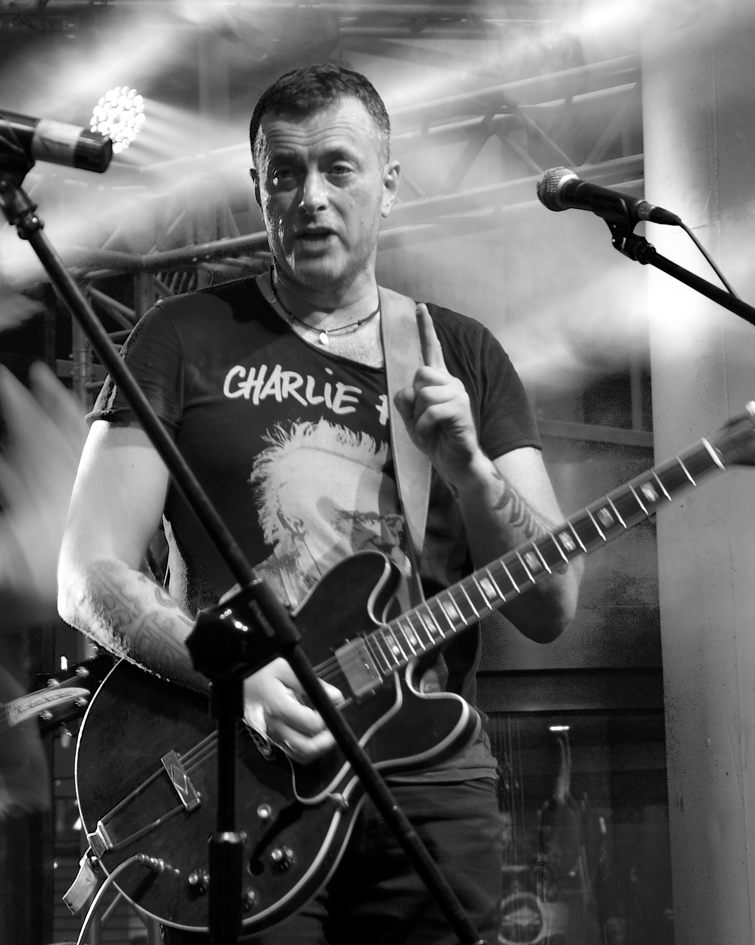 Tyman Tymanski